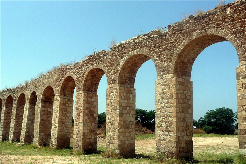 Aqueduct (Акко)